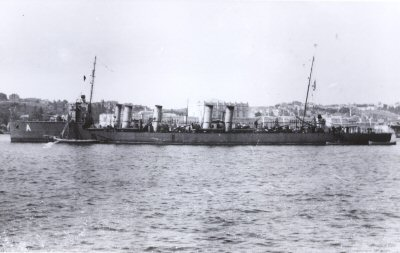 PD under Greek law